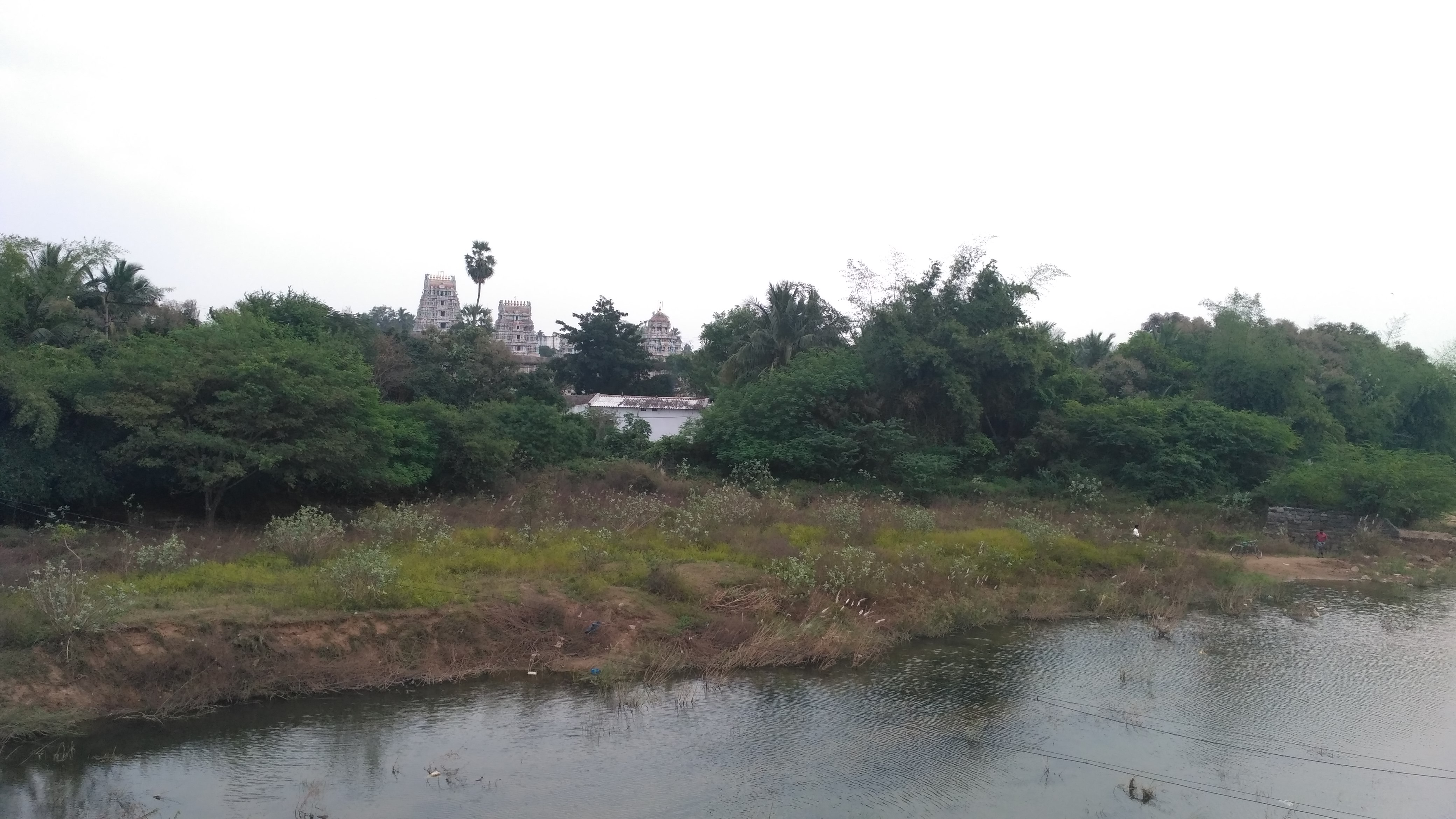 the temple with history of cheyyar